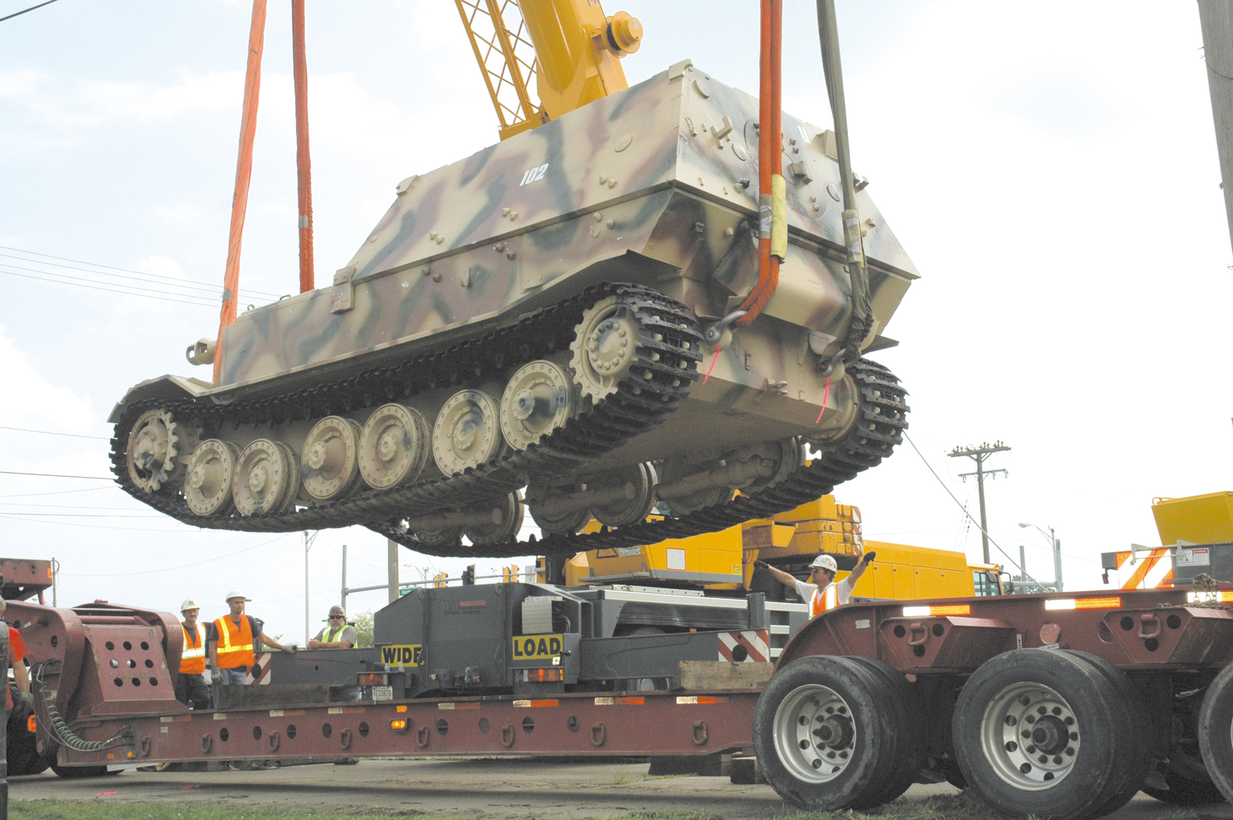 Mike Sturgill, a project manager with A&A Transfer, Inc., center, directs the lowering of a 141,000 pound German Elefant tank by two cranes onto a multi-axle trailer at the U.S. Army Ordnance Museum during the first phase of shipments of museum assets to Fort Lee, Va., Aug. 5. Looking on from left are A&A riggers Vic Abrams, crew chief, and Ben Thiesing and driver Bob Rathke with Meadow Lark Transportation.